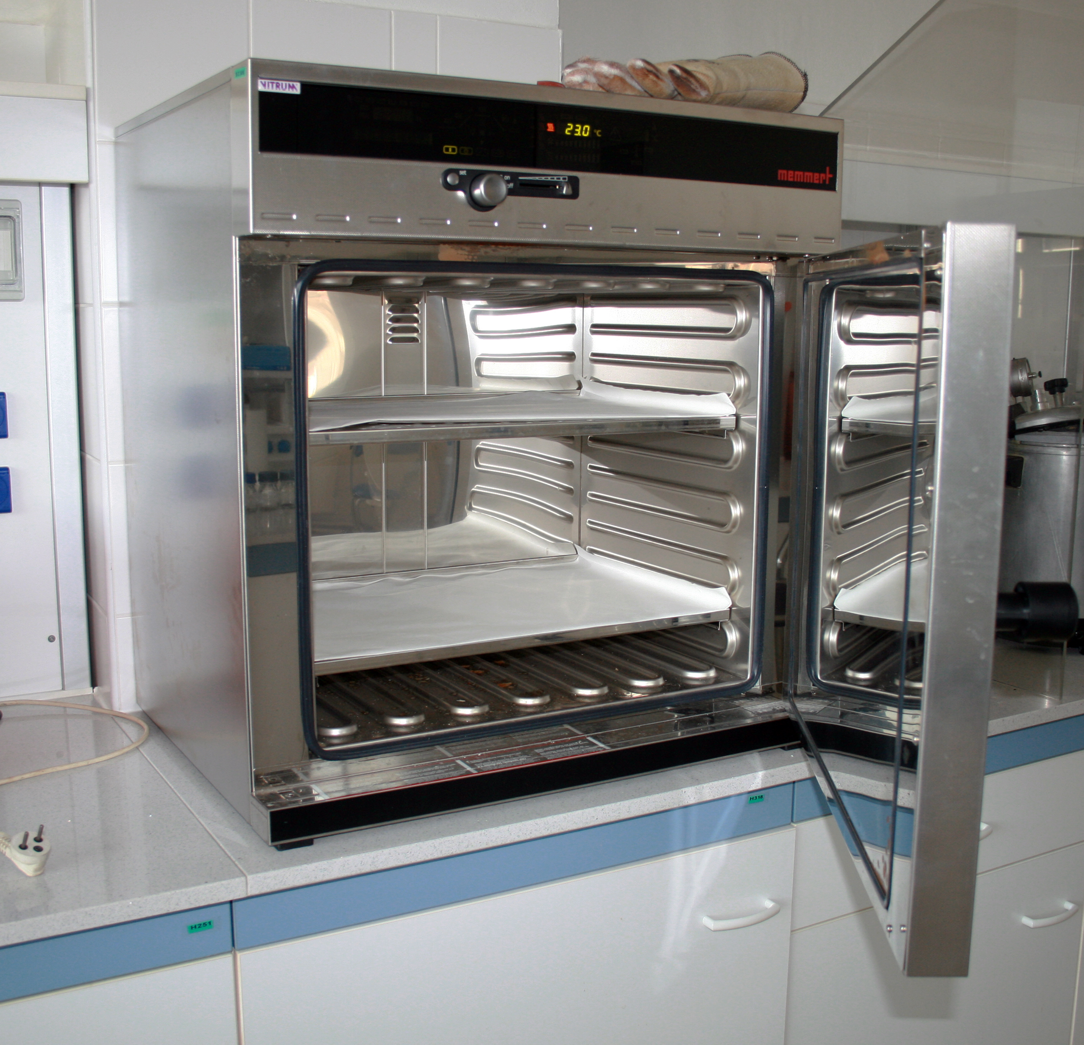 Laboratory drying oven Memmert Česky: Laboratorní sušárna Memmert